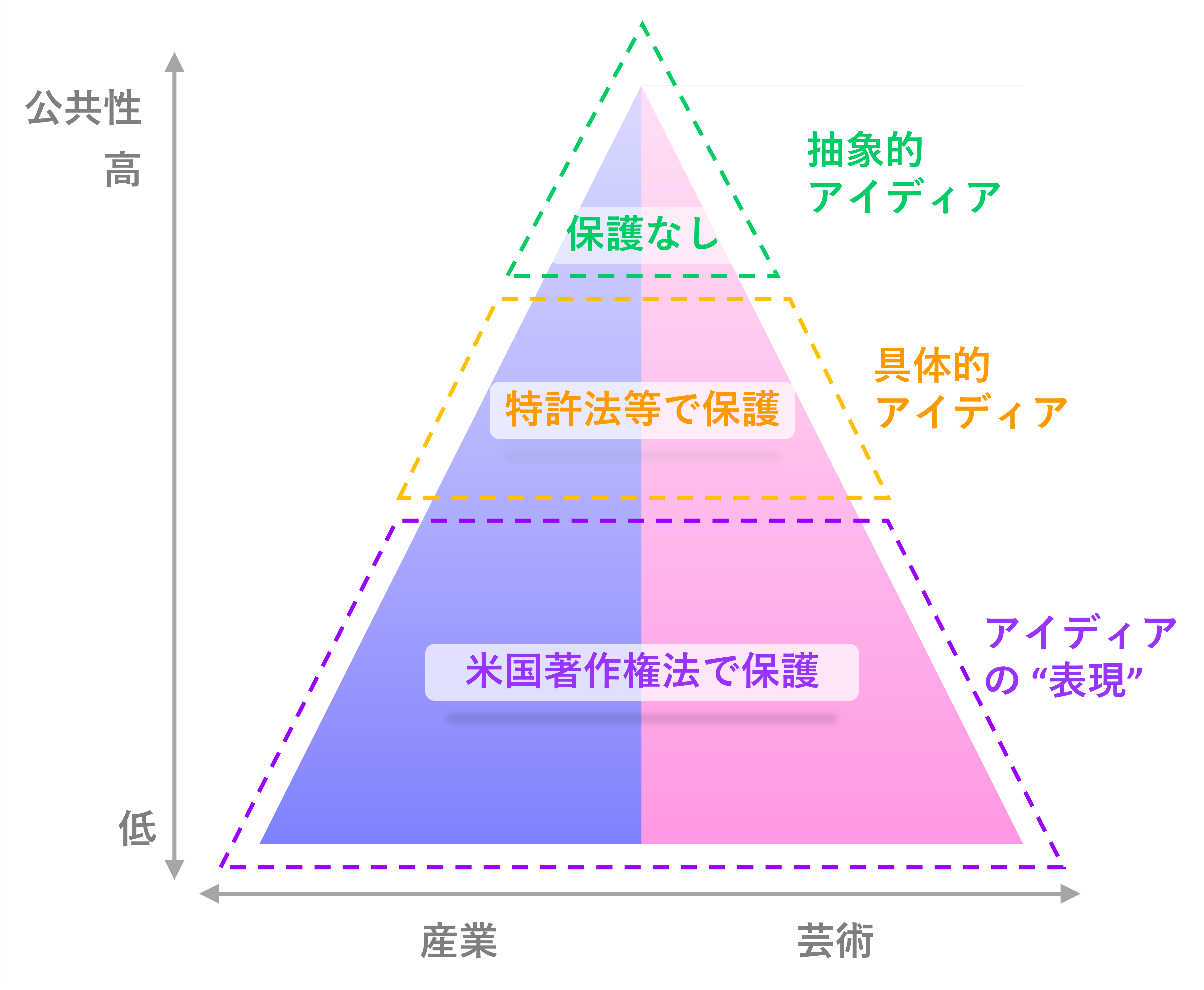 A conceptual chart of the idea-expression dichotomy mainly applied to copyright laws in US and European countries. Contrarily, Japan has been dividing useful works and artistic works. The essence of the chart is based on "The Fundamentals of American Copyright Law" 2nd edition by YAMAMOTO, Takashi, 2008 (ISBN=978-4-7783-1112-4).